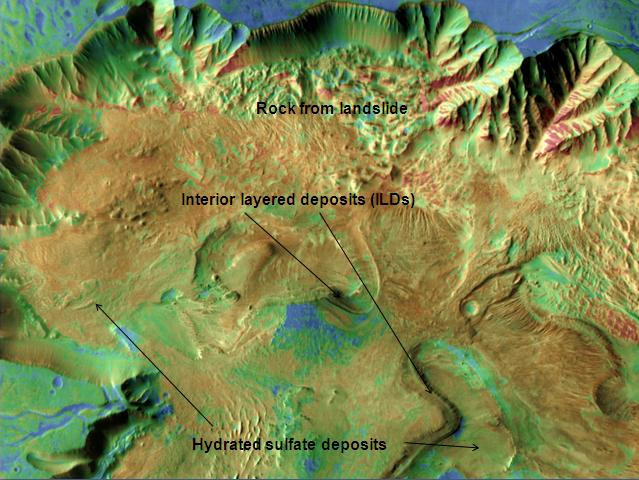 Candor Chasma in Coprates with labels. Location is 5.8 degrees south latitude and 75.8 degrees west longitude. Picture taken with Mars Odyssey's THEMIS. Photo credit NASA/JPL/ASU.